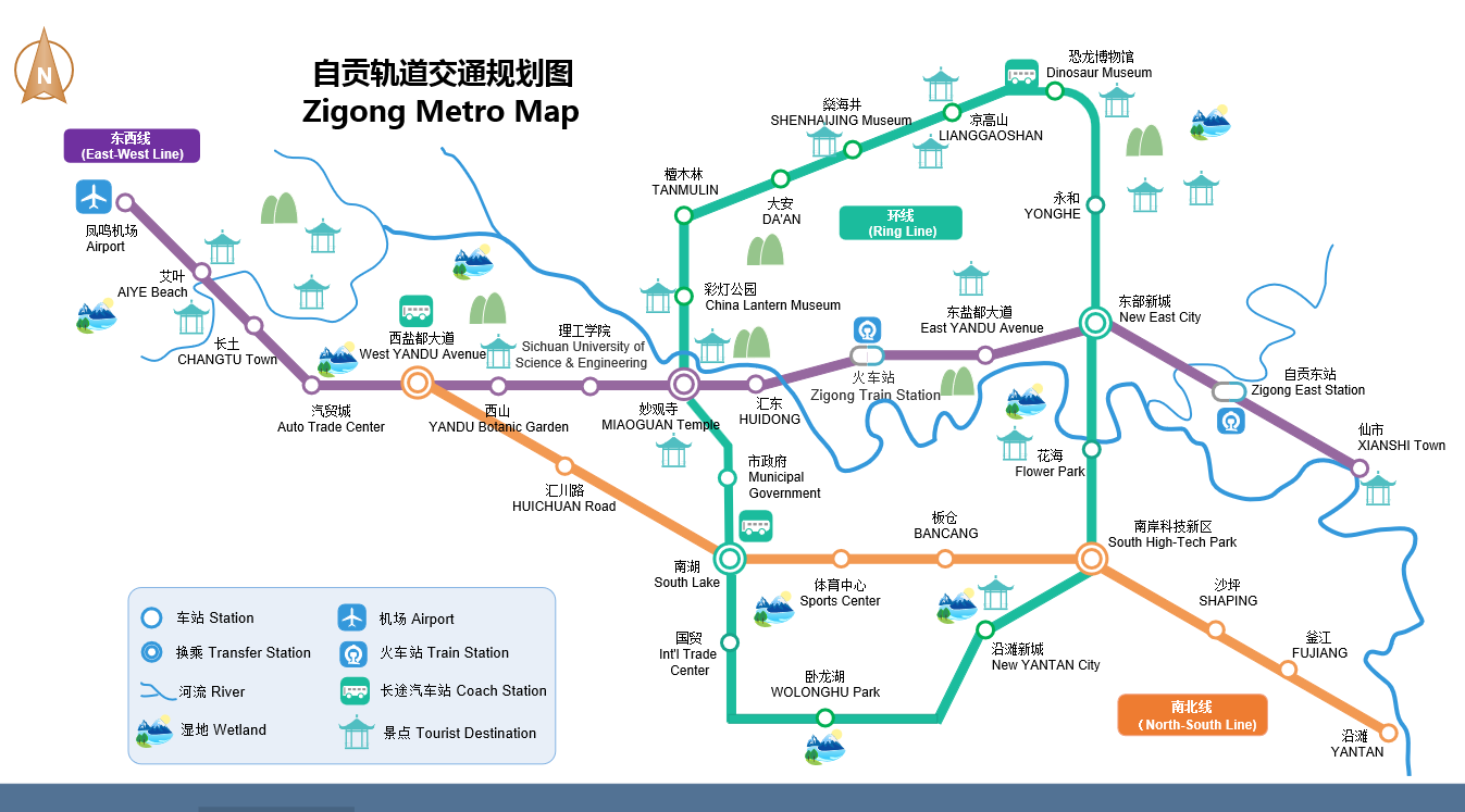 Zigong Metro